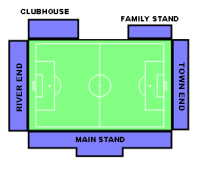 A plan of Crabble Stadium, created by myself using some rubbish image-editing software